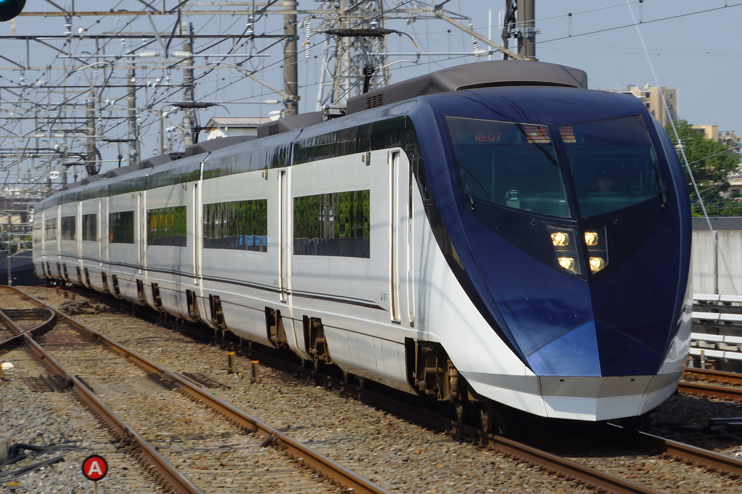 A Keisei AE series on a Skyliner service passing Higashi-Matsudo Station at a speed of 130 km/h